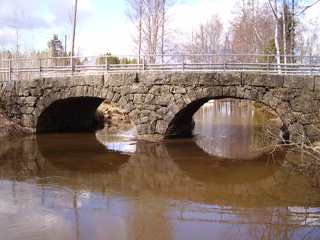 Stone arch bridge in Urjalankylä, Urjala, Finland. It's built in 1871, the cold wall technology.